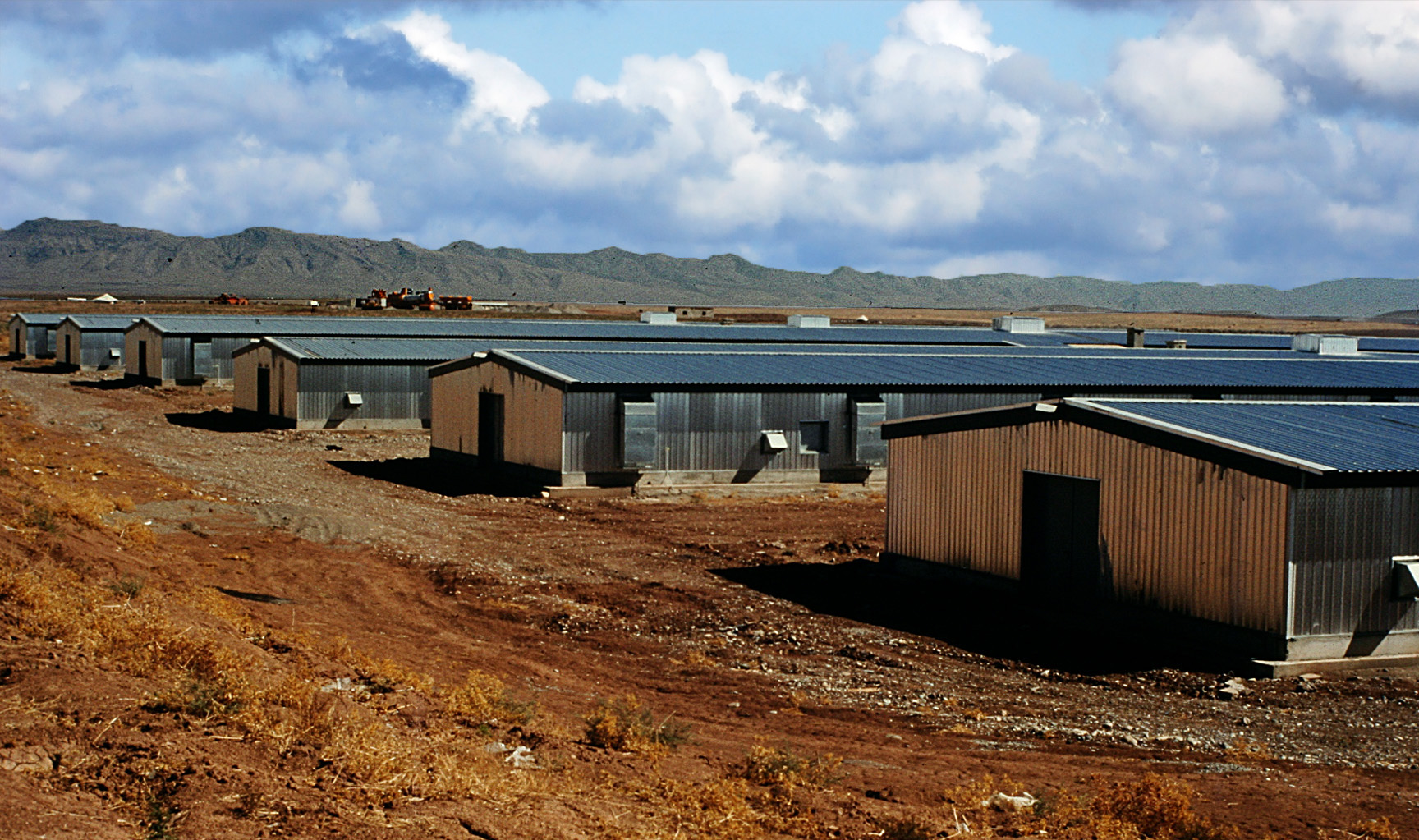 Chicken farm - Lohmann project 1981